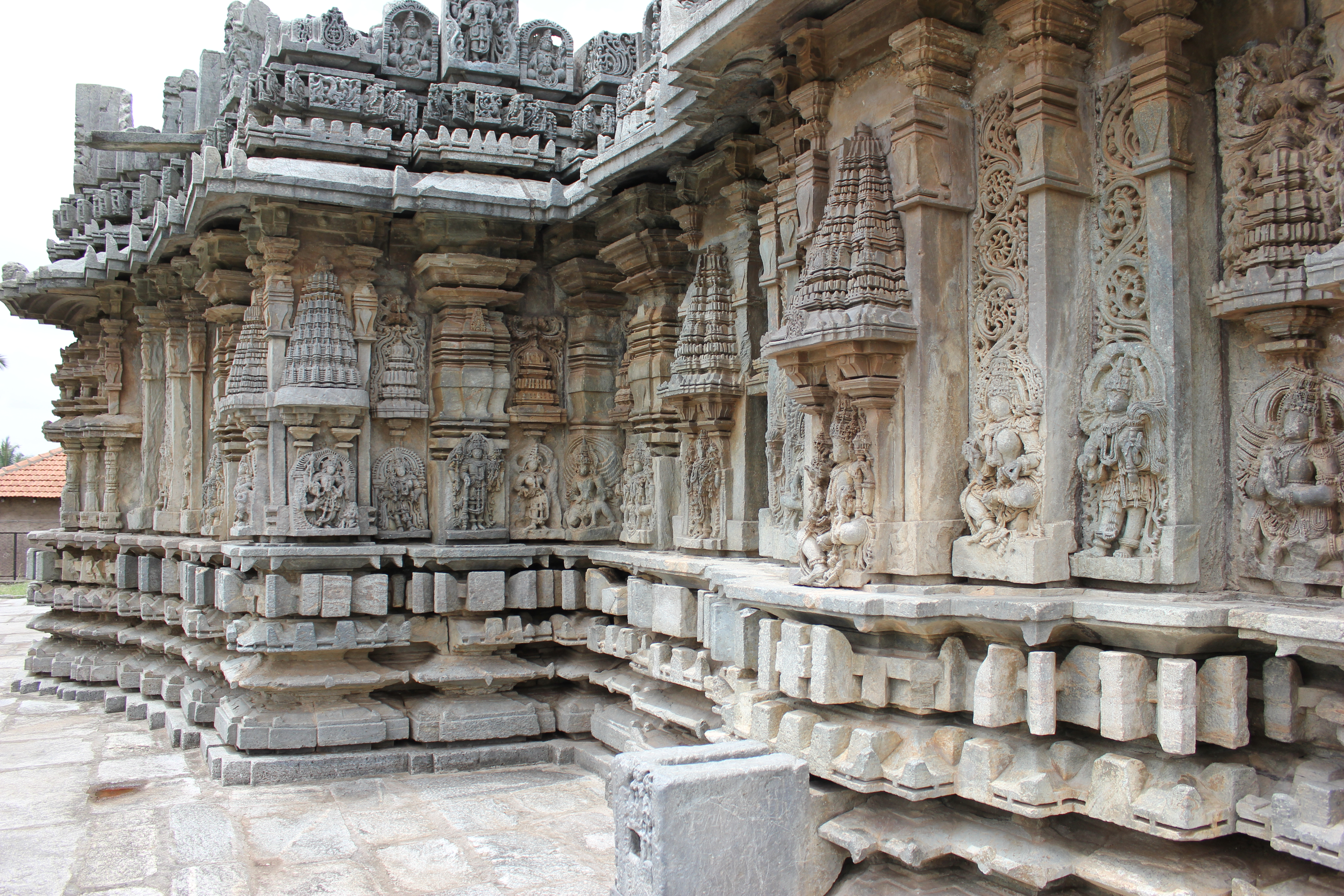 This photograph was taken by me at Mosale town in Hassan district of Karnataka state, India. Mosale is home to the twin temples built by Hoysala Empire King Veera Ballala II in 1200 A.D.; the Nageshvara and Chennakeshava temples.